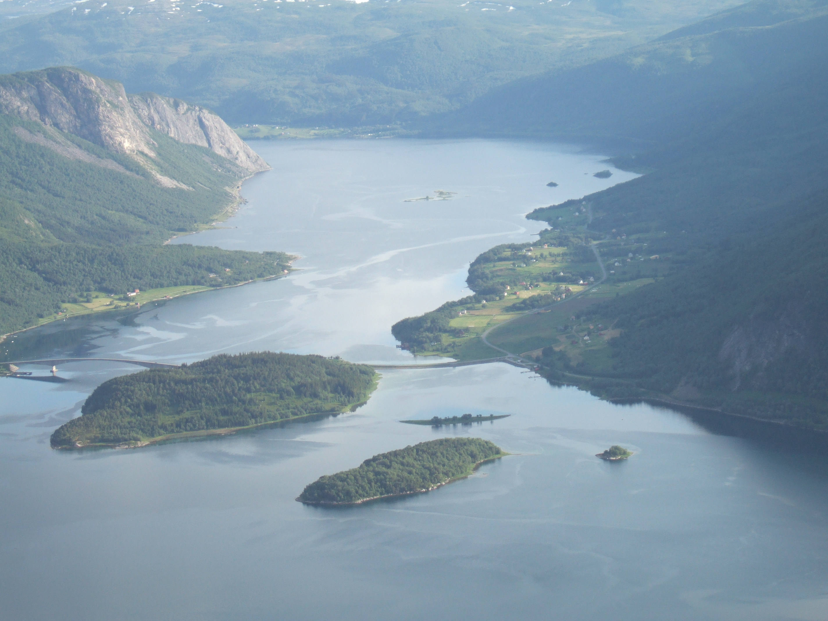 Misværfjorden in Bodø, Nordland, Norway.